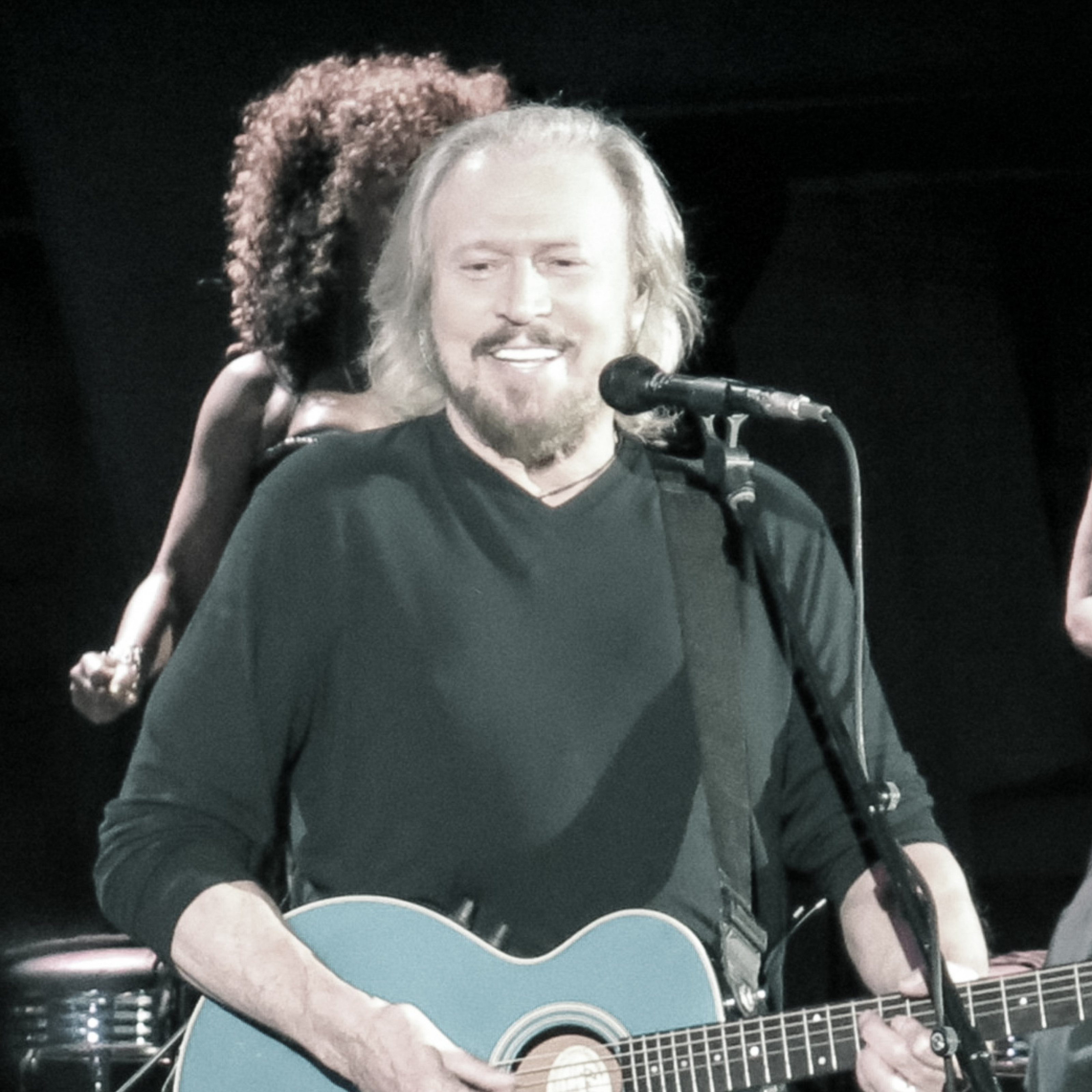 Barry Gibb Hollywood Bowl-0545